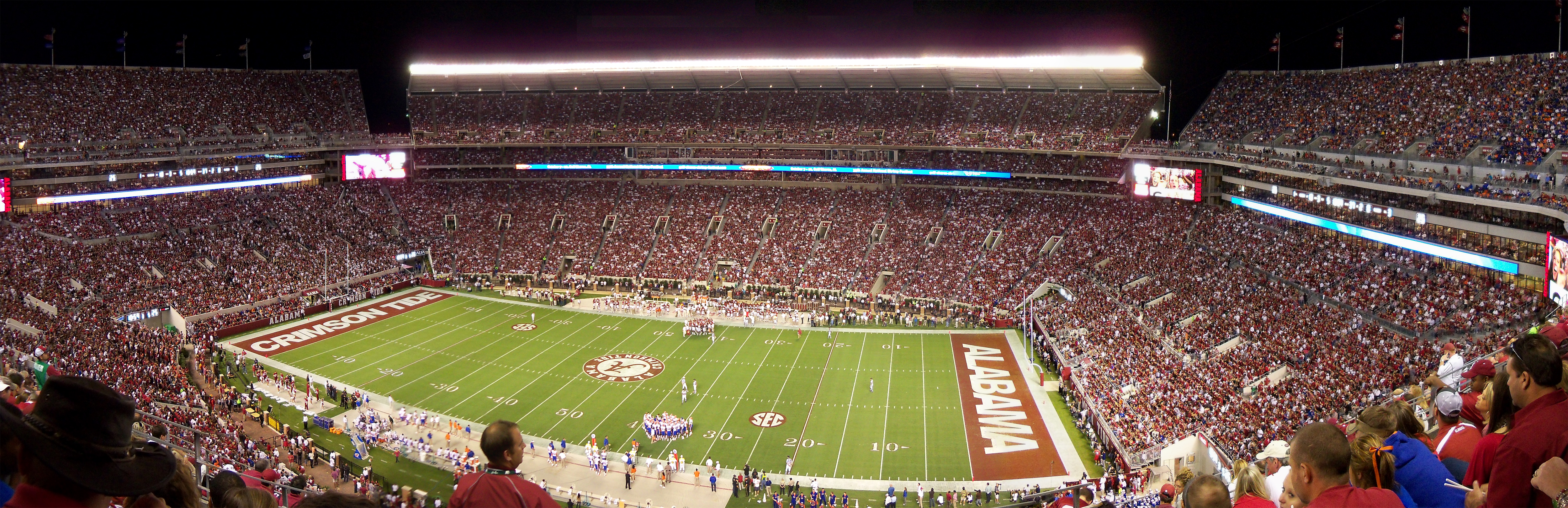 Bryant-Denny Stadium during an Alabama football game. Alabama defeated Florida 31-6.